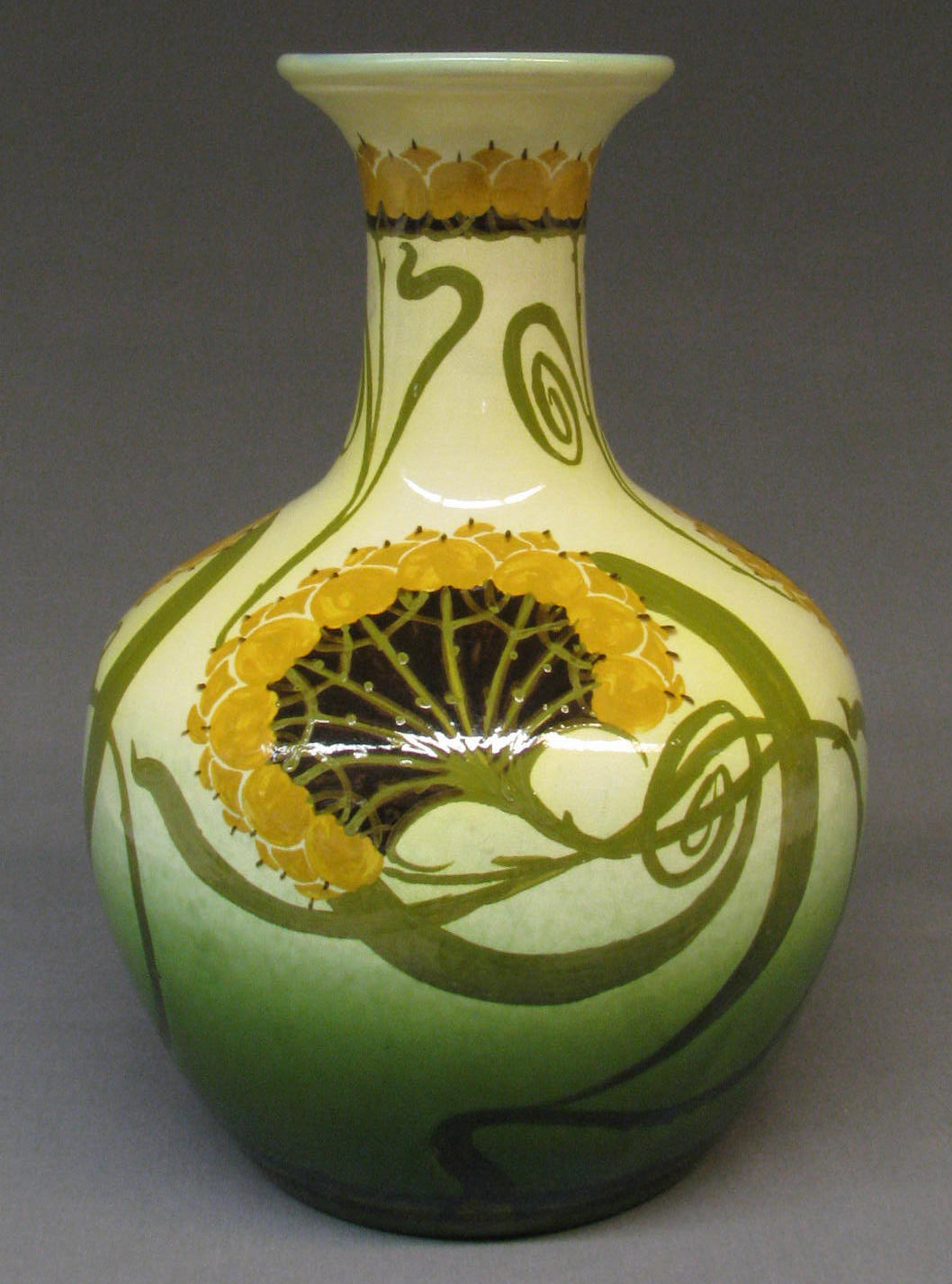 British, Swadlincote; Vase; Ceramics-Pottery